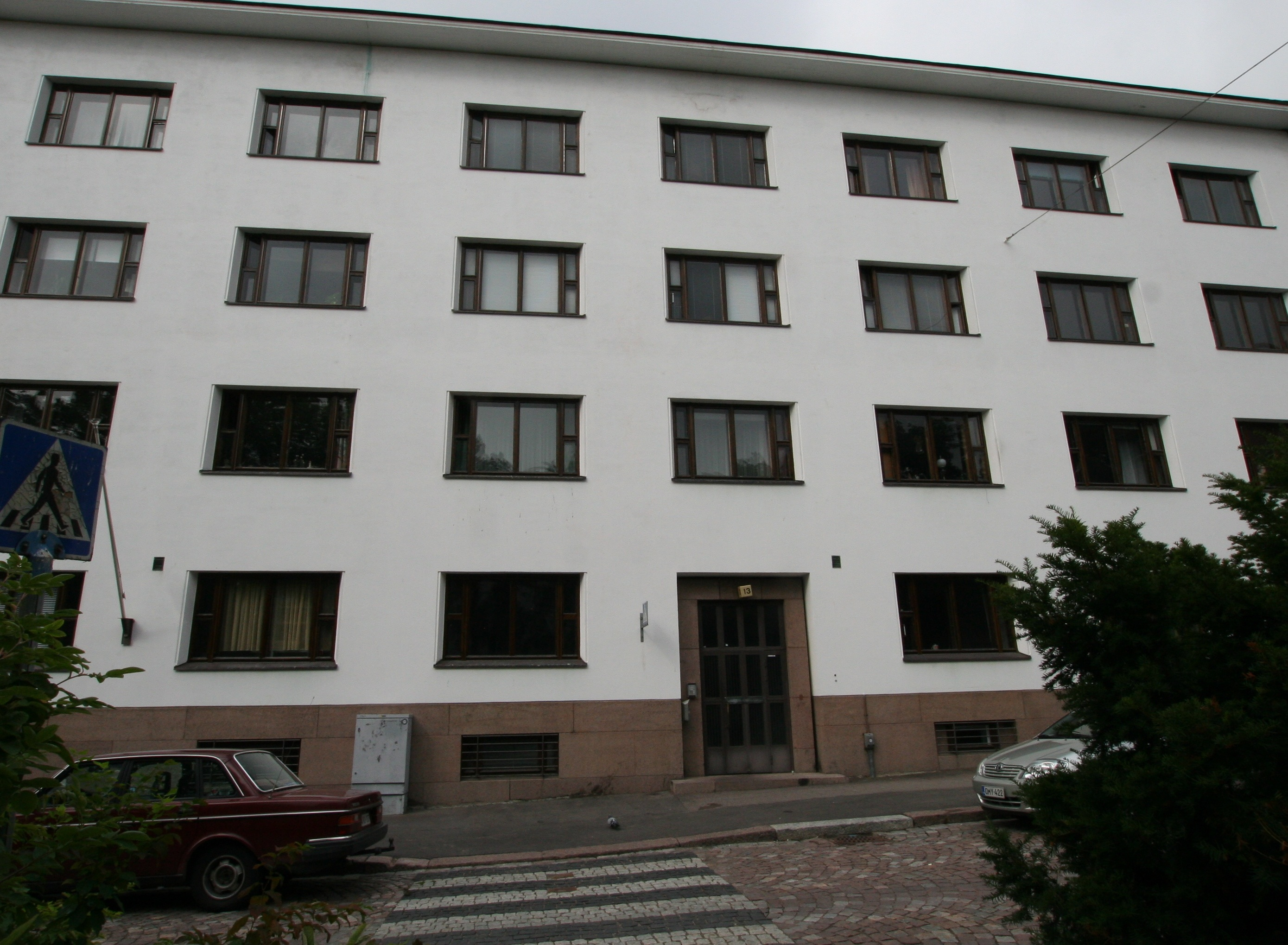 Home for retired Artists in Helsinki